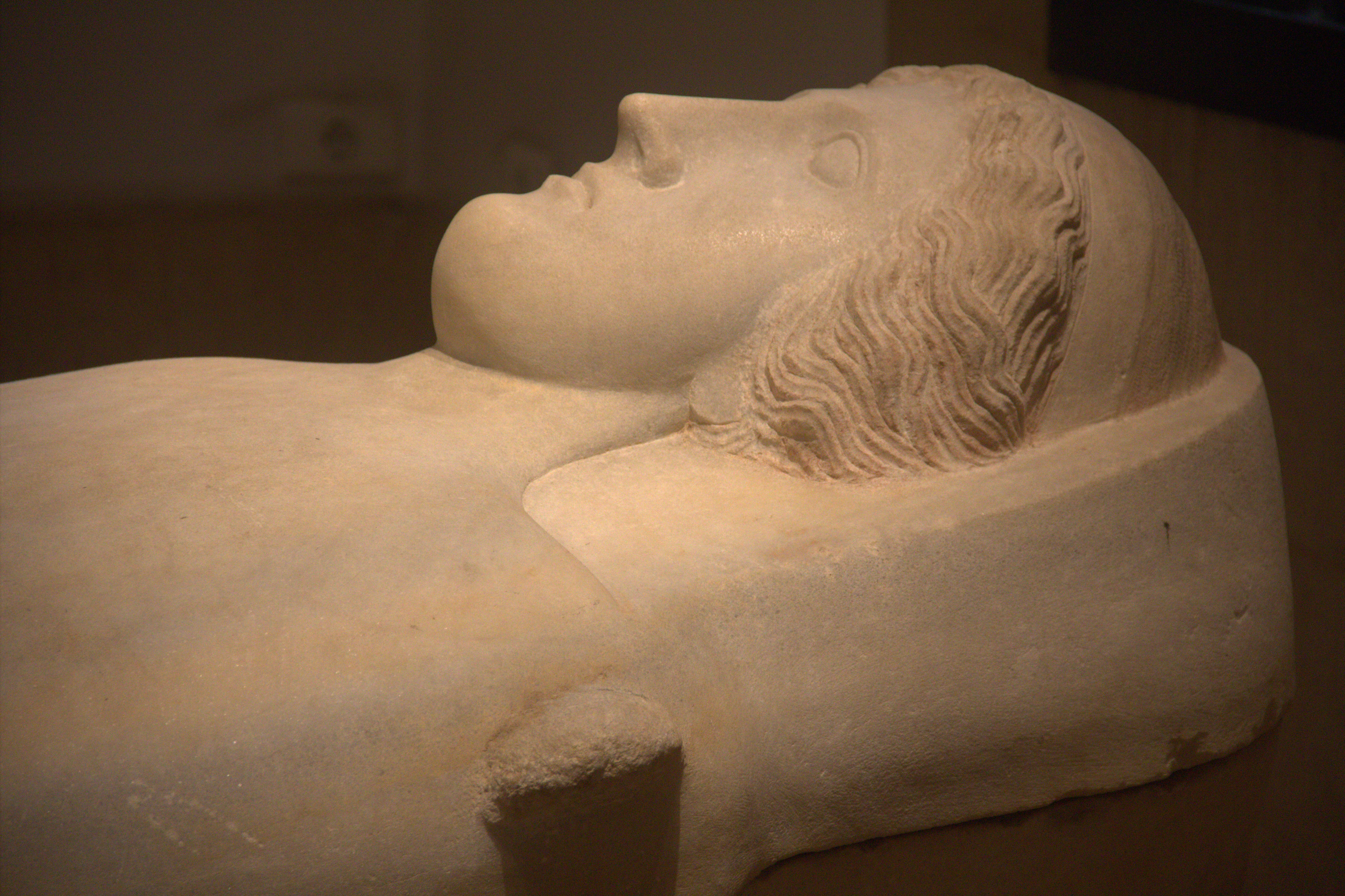 Head in National Museum, Beirut